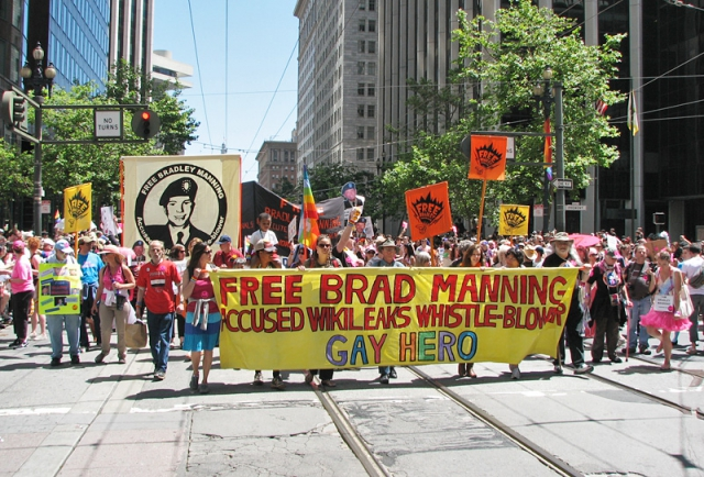 Activists March for Bradley Manning at the 2011 San Francisco Pride Parade. International human rights campaigner Peter Tatchell recently hailed Bradley a “gay hero” for his known commitment to equal human rights. Tatchell writes: Bradley Manning is openly gay. He has participated in Pride marches and campaigned against the “Don’t ask, don’t tell” restrictions on gay military personnel. In 2008, he attended a rally in New York to oppose attempts to ban same-sex marriage in California. Manning is also a humanist and a man with a conscience. When he discovered human rights violations by the US armed forces and duplicity by the US government, he was shocked and distressed. He became disillusioned with his country’s foreign and military policy; believing it was betraying the US ideals of democracy and human rights.